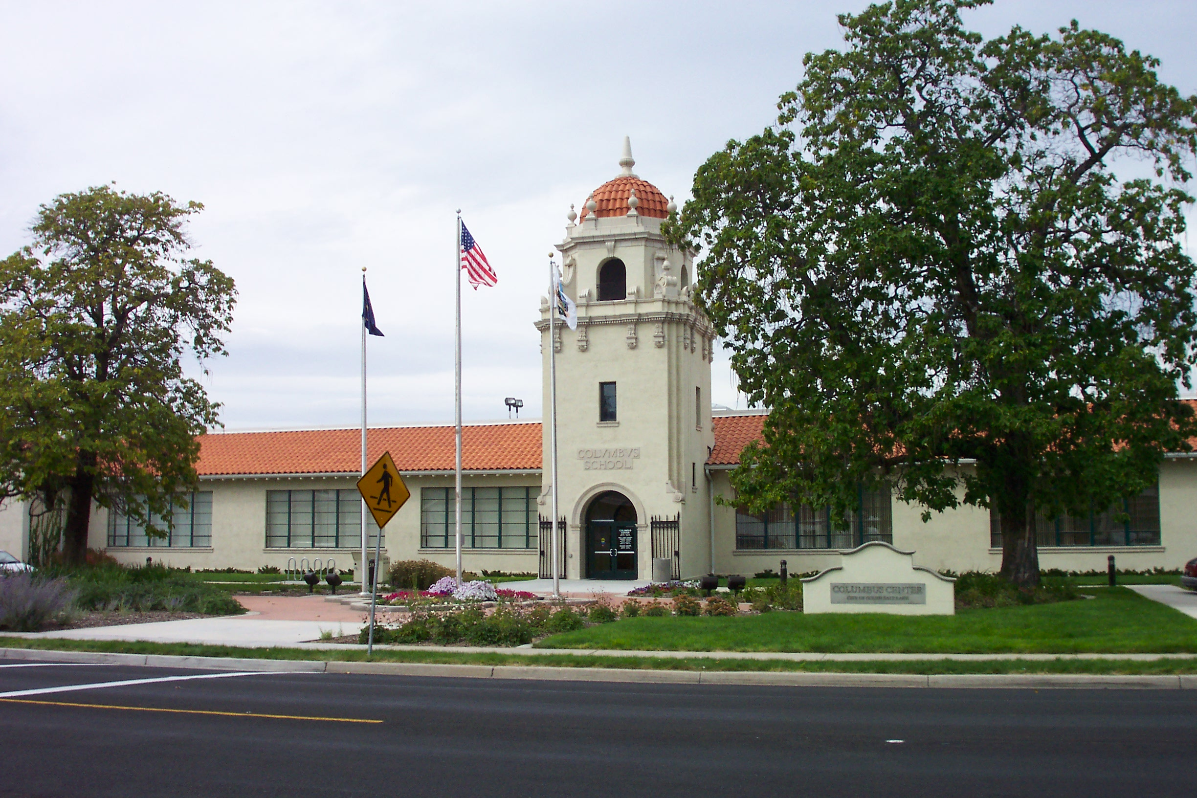 The Columbus Center in South Salt Lake City, UT is the location of the Alianza charter school, a Senior Center, public library, and city Parks & Recreation offices. Many community events are held there also.